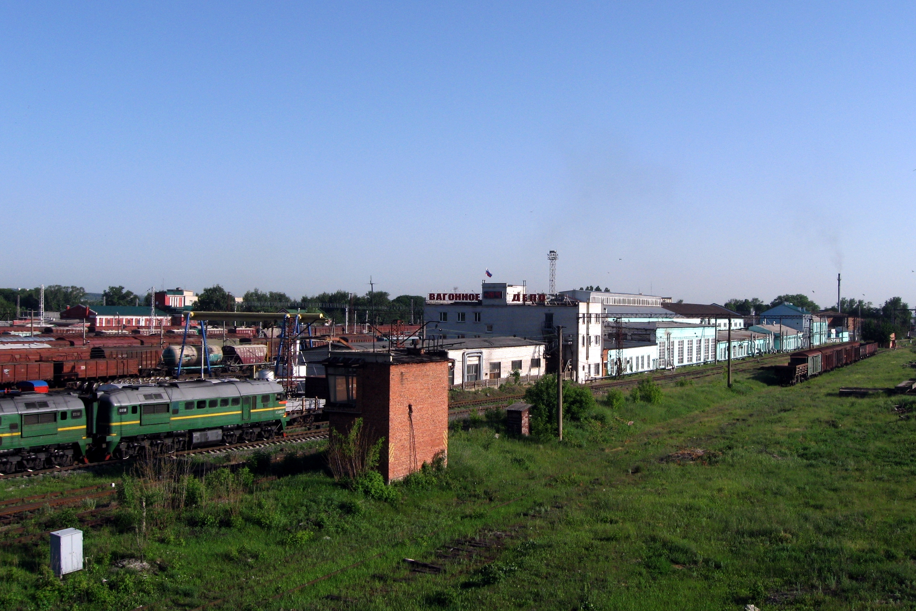 Kursk Train Station Freight Car Depot